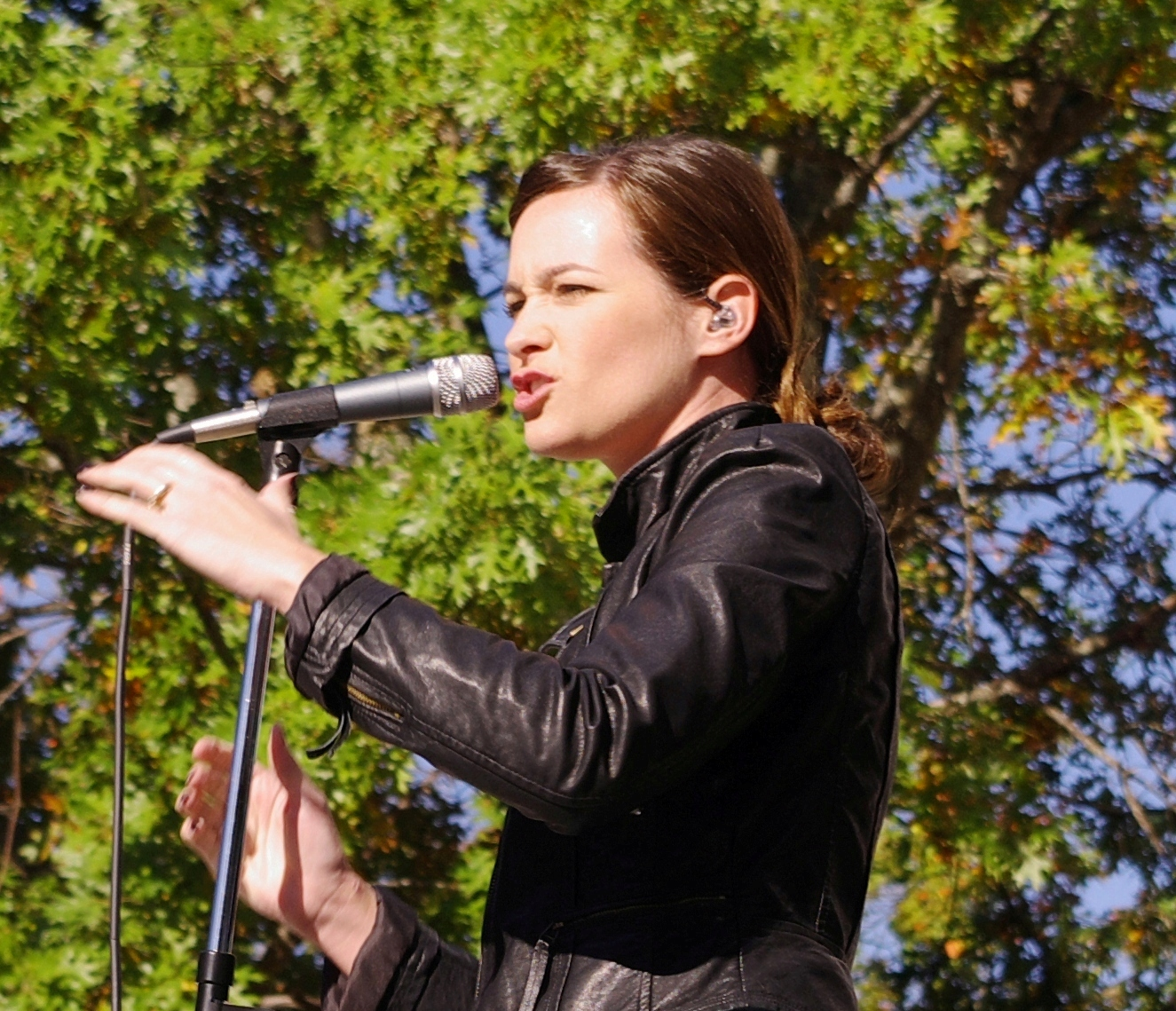 Singer and former American Idol participant Krista Branch performing at a rally for presidential candidate Herman Cain at Tennessee Tech University in Cookeville, Tennessee. Branch's song, "I am America," is the official theme song of the Cain campaign.